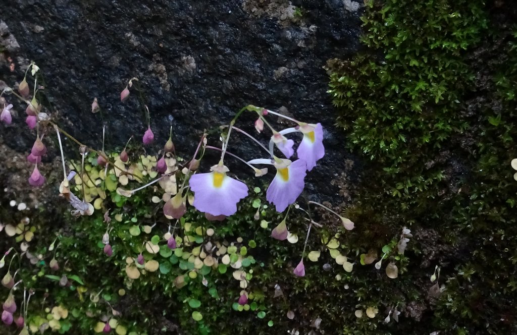 Utricularia striatula seen in Bhagavathy Nature camp Kudremukh karnataka